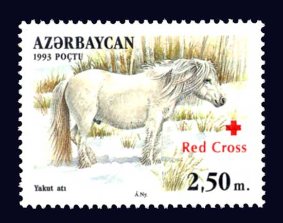 Stamp of Azerbaijan